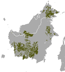 Bornean Orangutan (Pongo pygmaeus) range